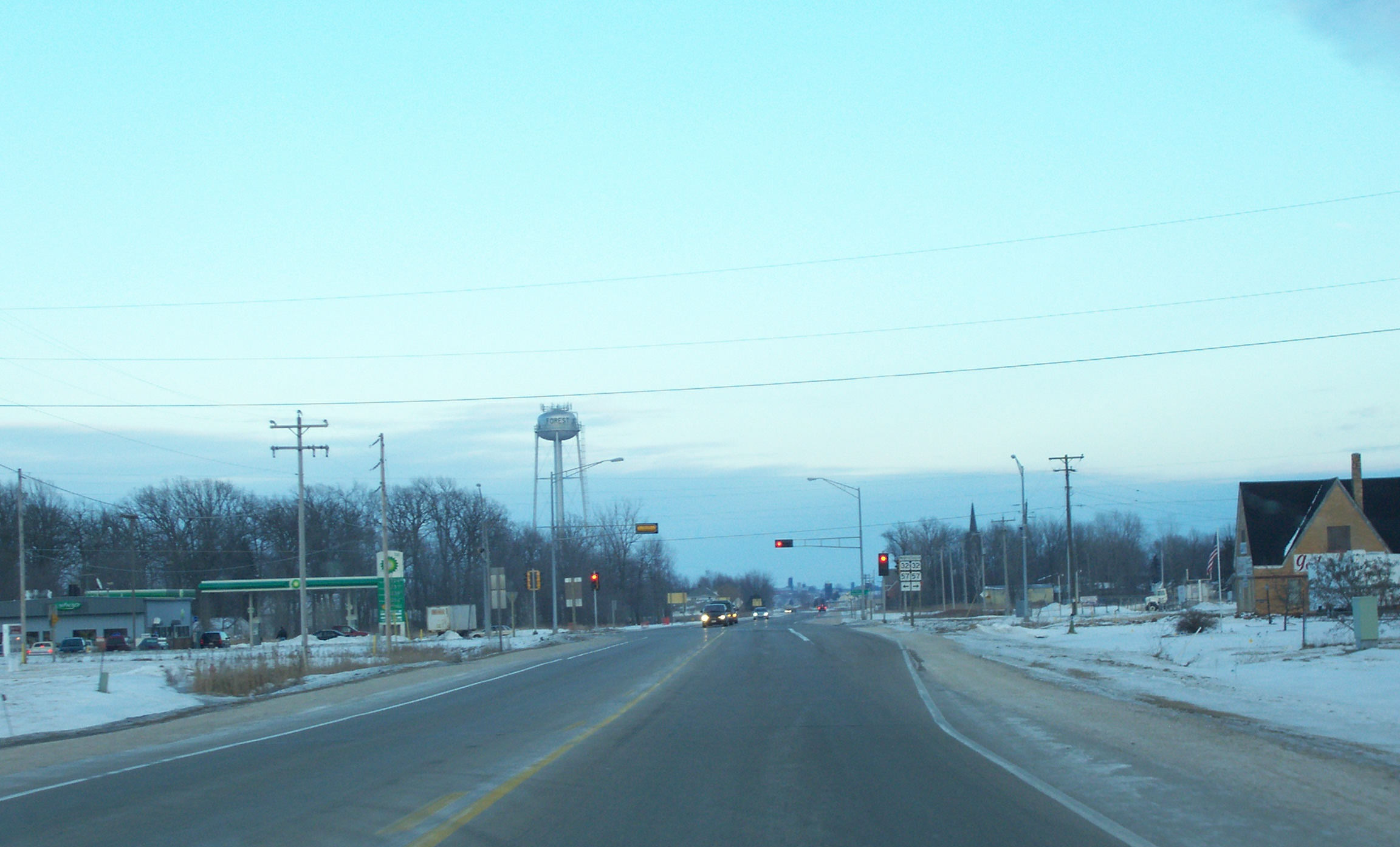 Looking east at Forest Junction, Wisconsin, USA. Travelling eastbound on U.S. Highway 10. Taken February 11, 2007 by myself. Cropped from original.